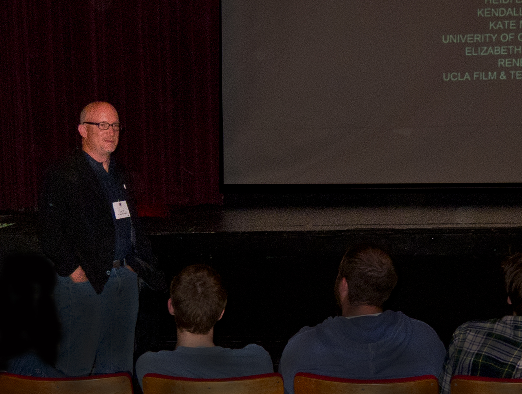 Alex Gibney presenting in Hard Auditorium at Pomfret School 2011